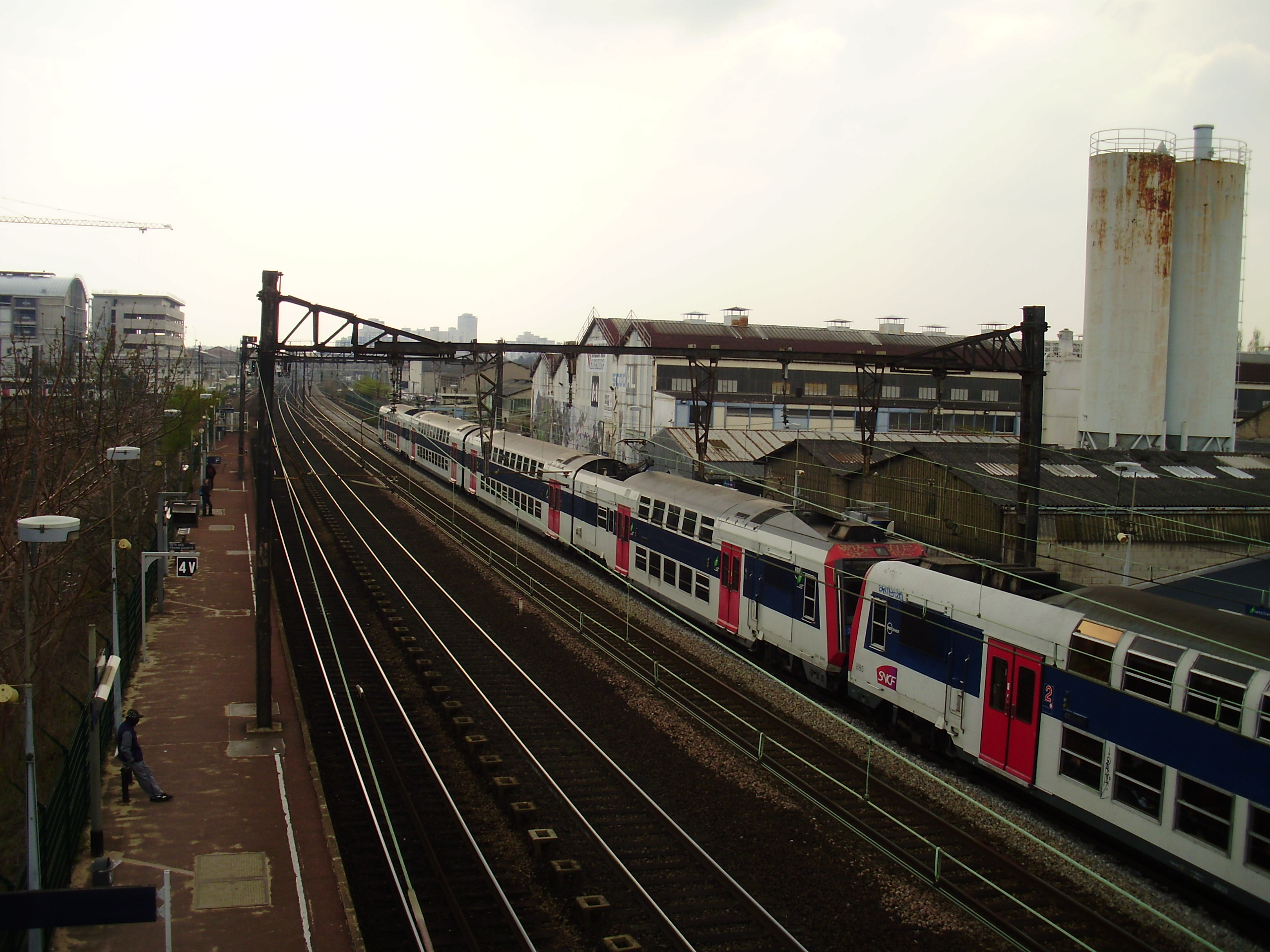 Les Ardoines station, in Vitry-sur-Seine, Val-de-Marne, France